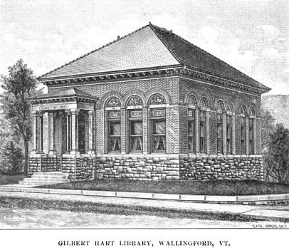 Library in Vermont